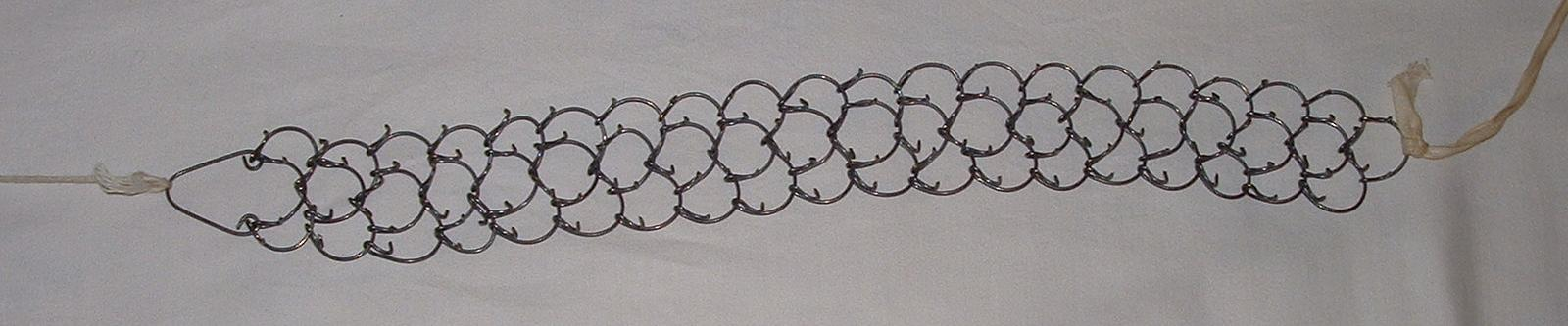 Cilice (Ancient Catholic mortification-belt, used by some Christians as a form of mortification since the middle ages.